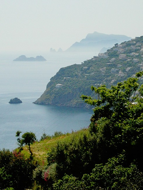 Amalfi, the coast picture taken by user:Idéfix, june 2005